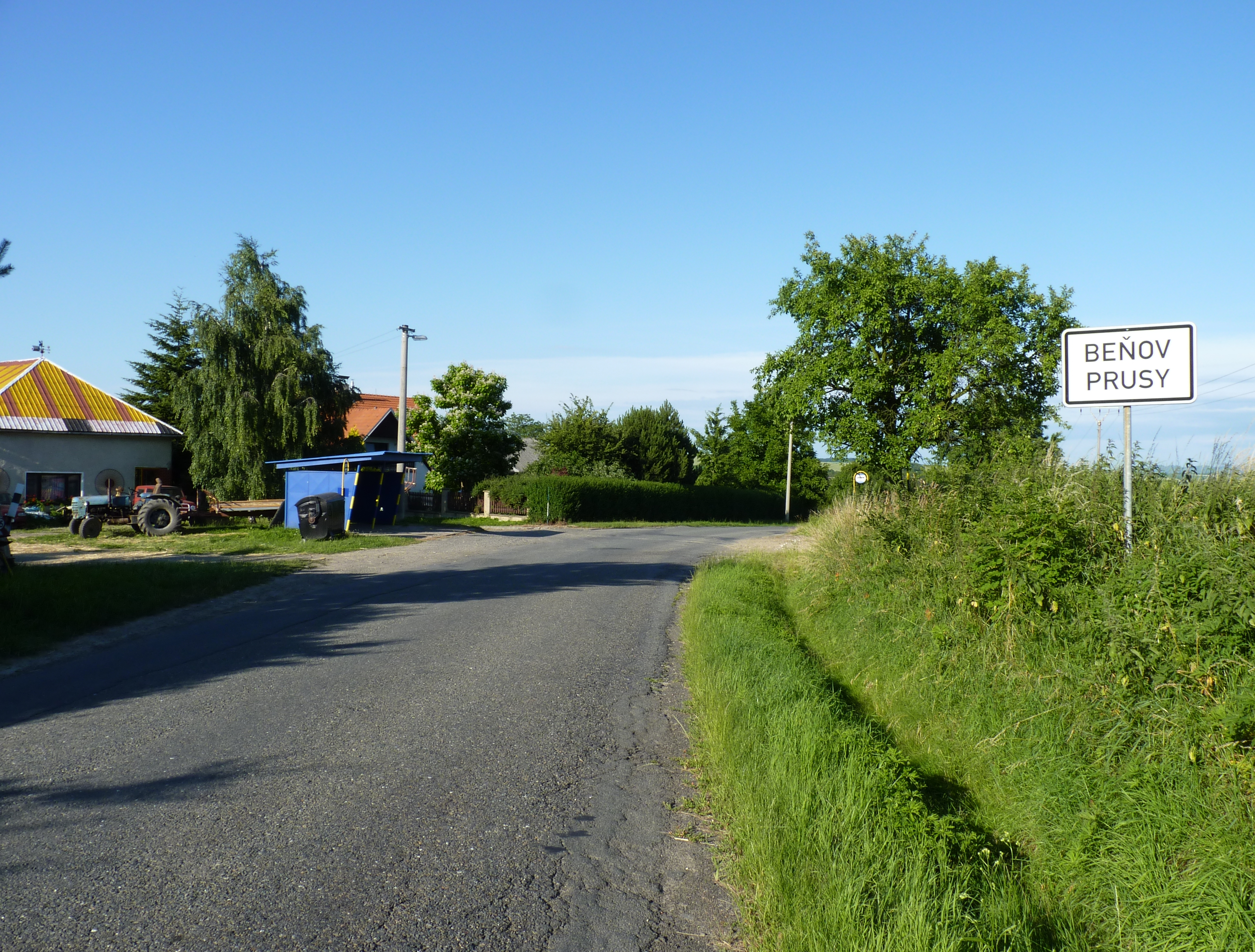 Beňov - Prusy. Přerov District, Olomouc Region, Czech Republic